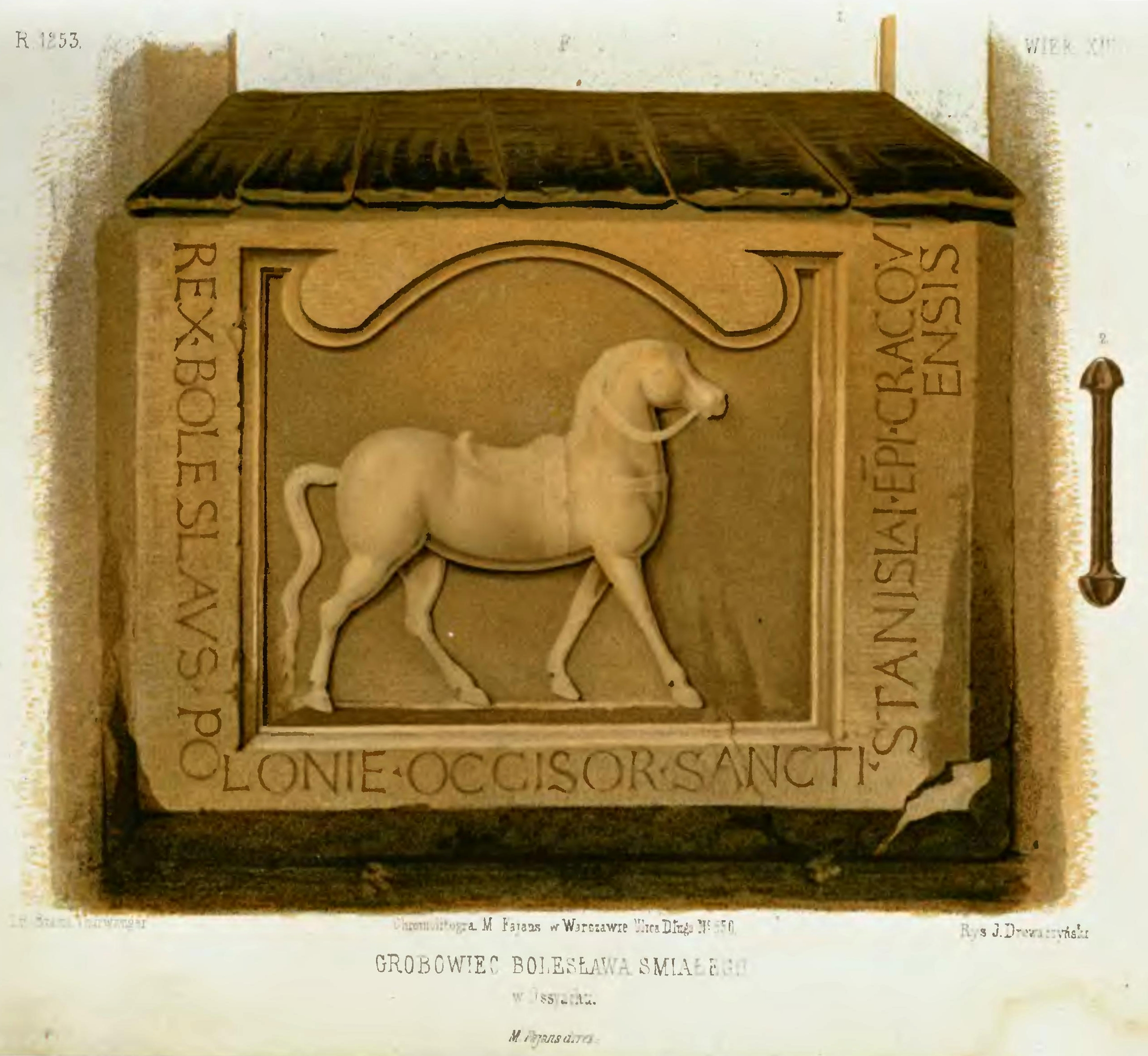 Tomb of Boleslaus II of Poland (?) in Ossiach.